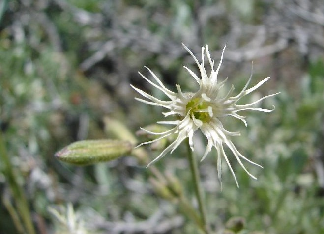 Silene oregana from Sheri Hagwood. Bureau of Land Management. United States, ID, Bureau of Land Management Jarbidge Resource Area. June 26, 2007.